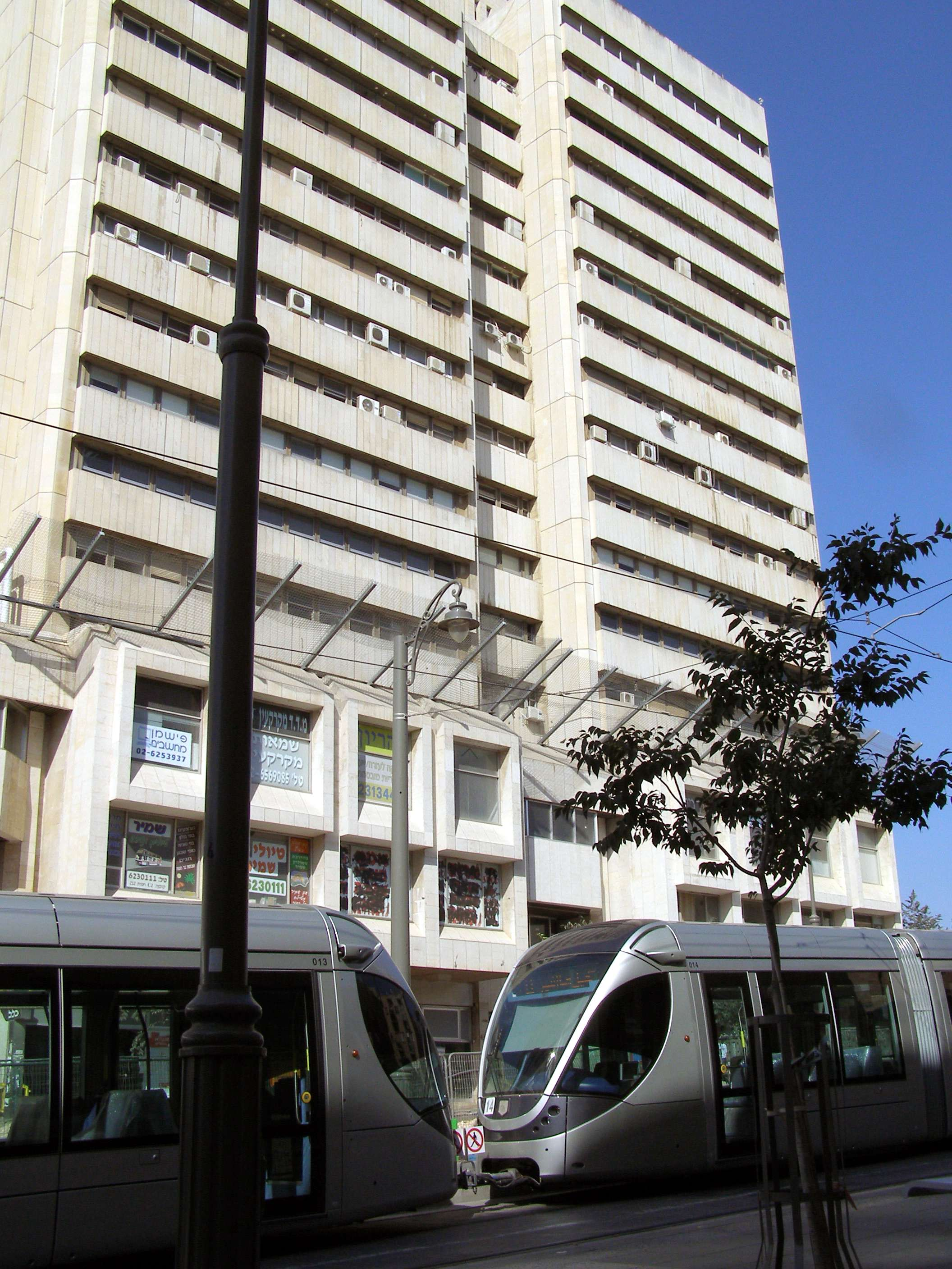 Clal Center, 97 Jaffa Rd., Jerusalem OLYMPUS DIGITAL CAMERA